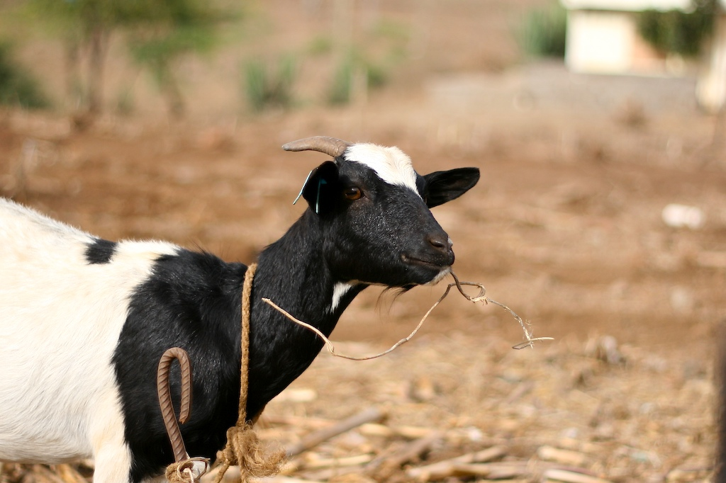 A domestic goat from Cape Verde.